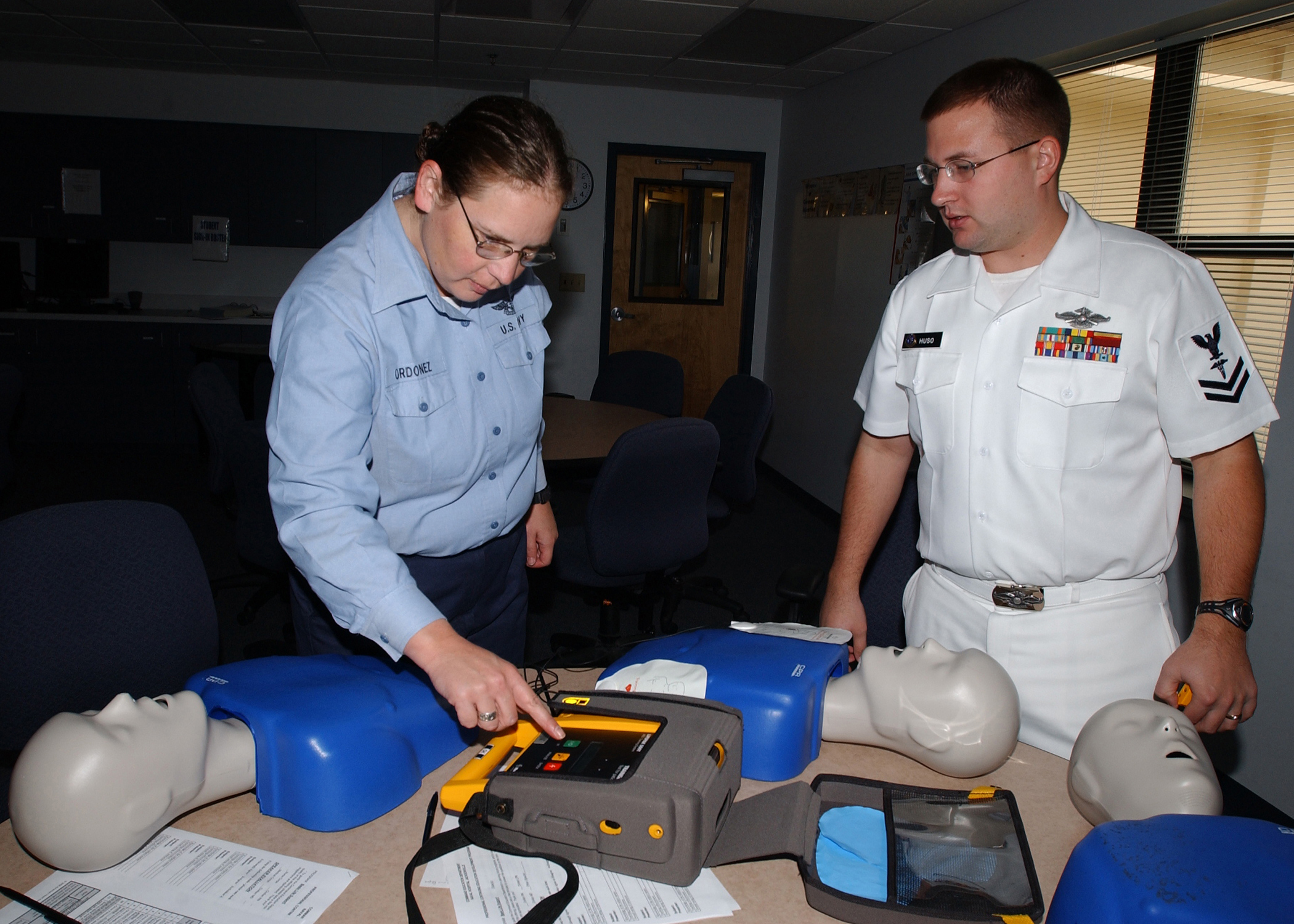 Jacksonville, Fla. (Oct. 16, 2006) - Hospital Corpsman 2nd class Nicholas Huso instructs Mass Communication Specialist 2nd Class Denise Ordonez how to properly operate an automated external defibrillator (AED) during a recent adult cardiopulmonary resuscitation (CPR) training held at the Naval Education Center aboard Naval Air Station Jacksonville. All American Red Cross adult and child CPR courses contain defibrillation skills and information U.S. Navy photo by Mass Communication Specialist 2nd Class Susan Cornell (RELEASED)